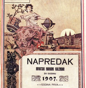 Croatian People's Calendar of "Napredak" (very important cultural society of Croats in BiH, literally meaning: "progress") for 1907.